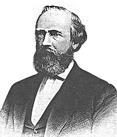 Chauncey Walker West (1827-1870), presiding LDS Bishop of Weber County, Utah Territory from 1855 to 1870.